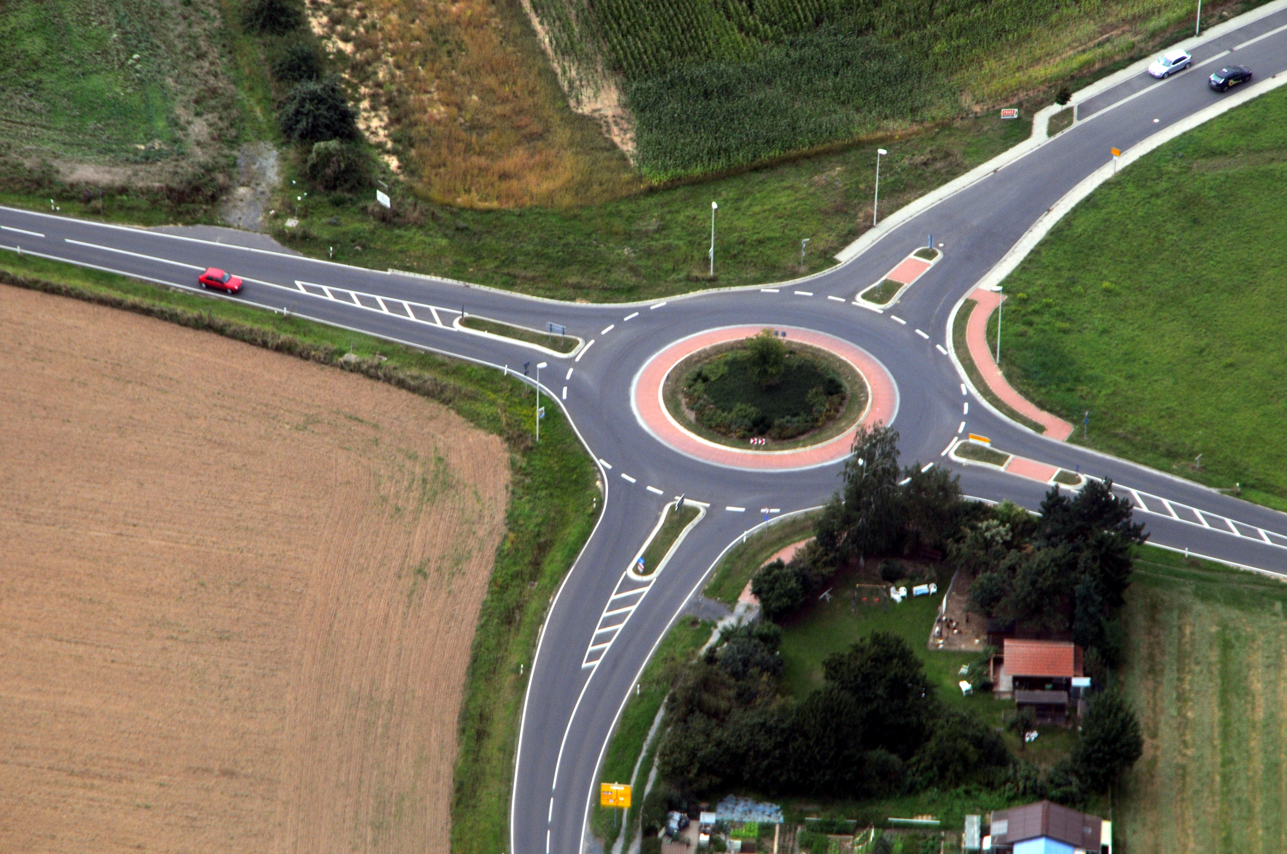 Roundabout Großwallstadt, N 49.87308 E 9.151507, Bavaria, Germany, aerial photograph